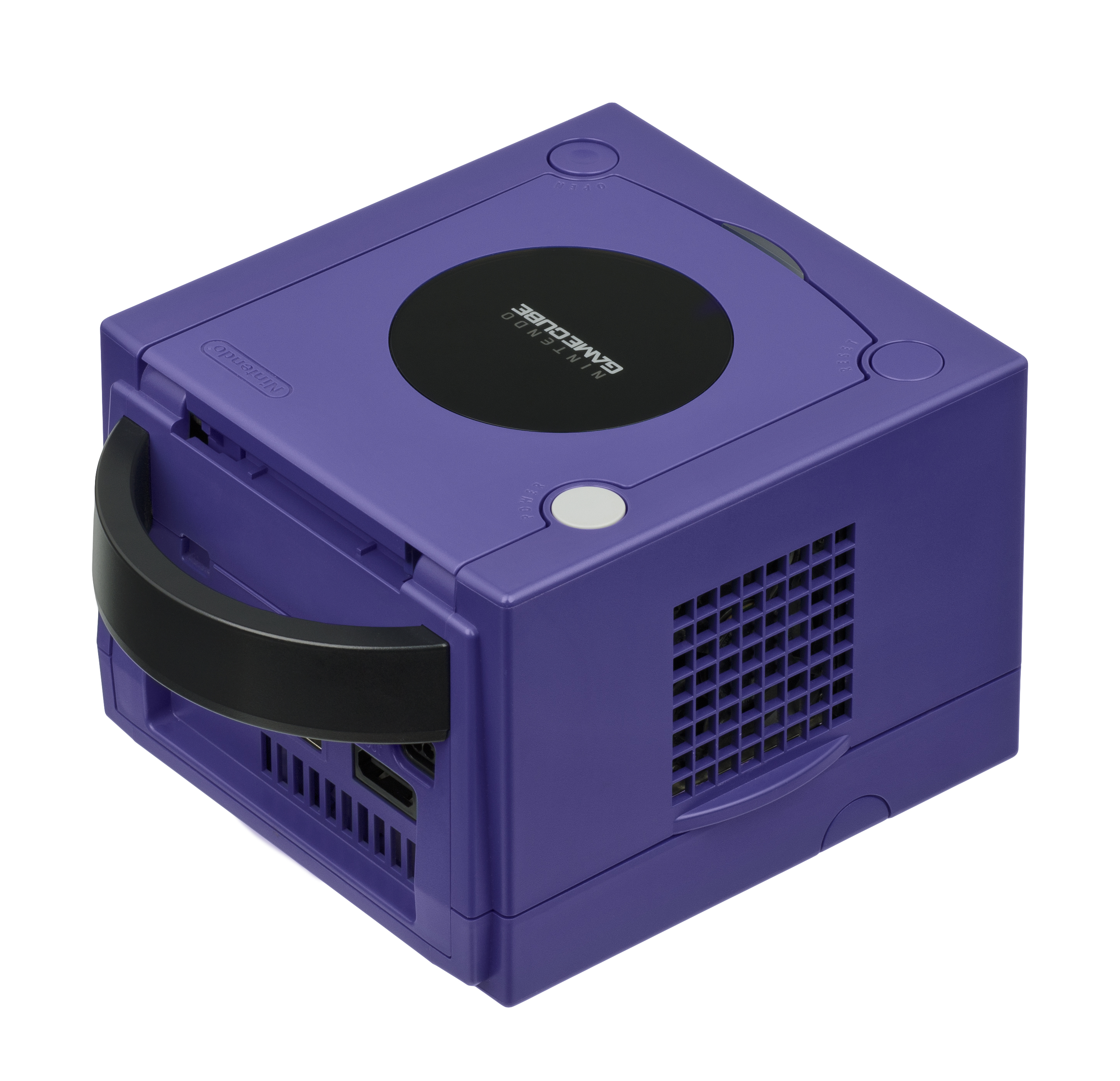 The GameCube, a sixth generation video game console that was introduced by Nintendo in 2001.